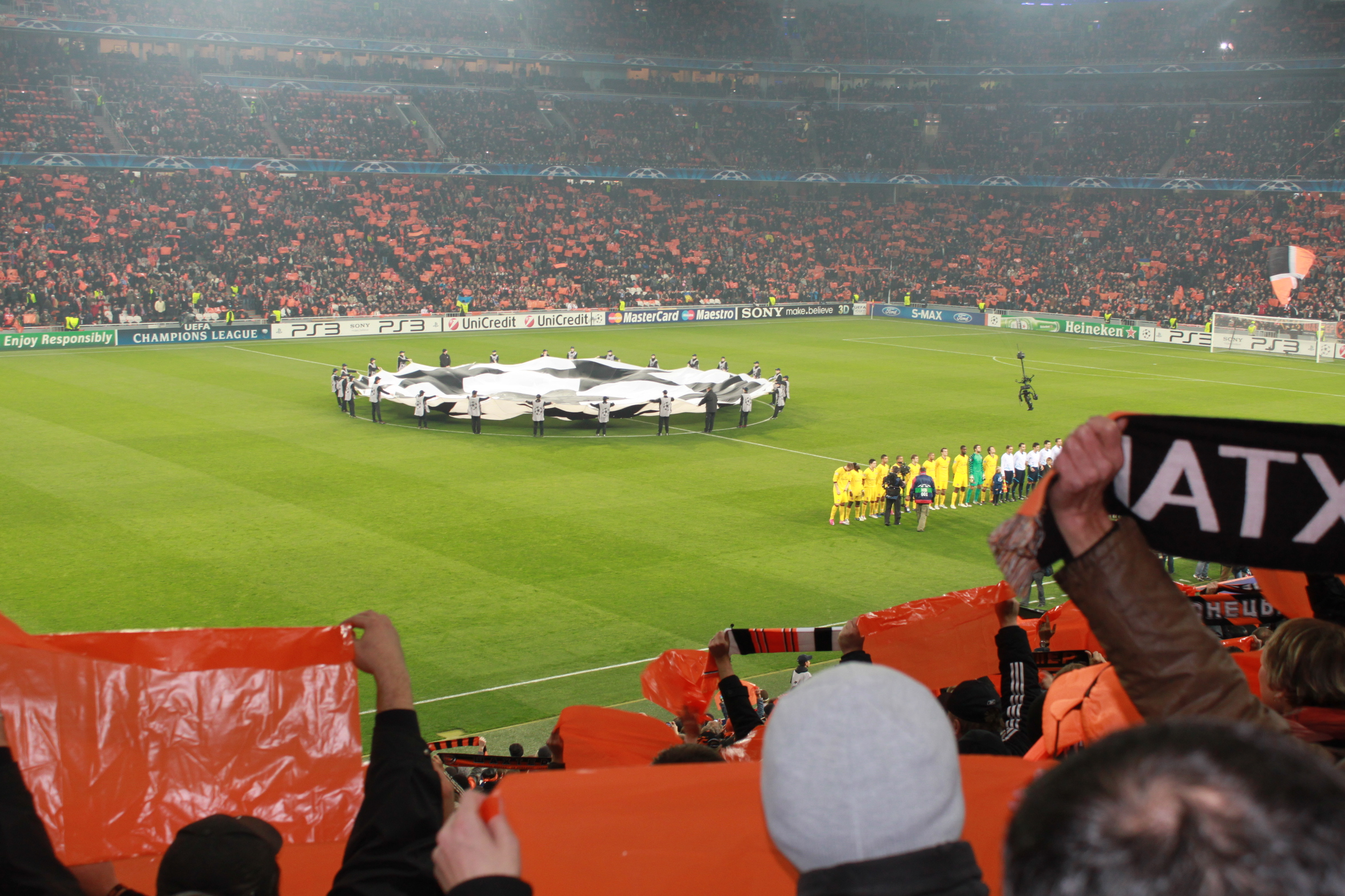 Donbass Arena in Donetsk, Ukraine